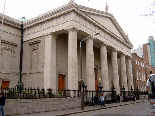 shot of St Mary's Pro-Cathedral in Dublin. My image. No c/r